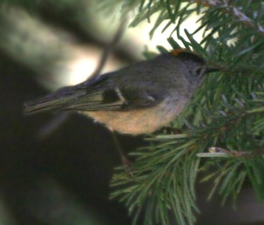 Goldcrest Regulus regulus at 11,500 ft. in Kullu District of Himachal Pradesh, India.